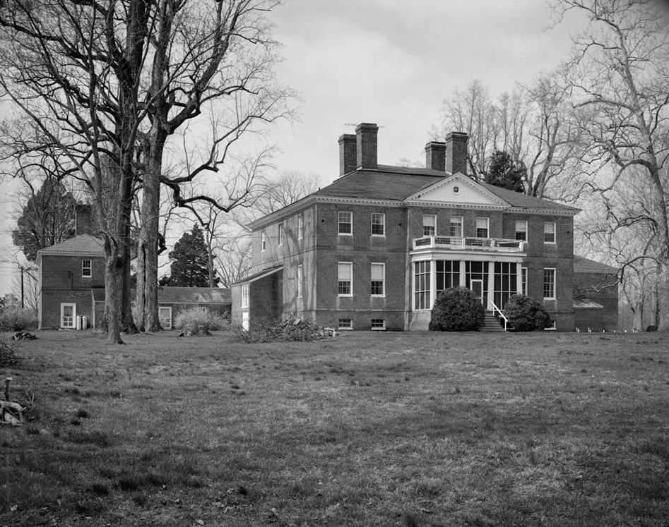 Blandfield, U.S. Route 17 & State Route 624, Caret vicinity (Essex County, Virginia) cropped This file comes from the Historic American Buildings Survey (HABS), Historic American Engineering Record (HAER) or Historic American Landscapes Survey (HALS). These are programs of the National Park Service established for the purpose of documenting historic places. Records consist of measured drawings, archival photographs, and written reports. When reusing please credit: Library of Congress, Prints & Photographs Division, VA,29-CAR.V,1-13 This tag does not indicate the copyright status of the attached work. A normal copyright tag is still required. See Commons:Licensing. This work is in the public domain in the United States because it is a work prepared by an officer or employee of the United States Government as part of that person’s official duties under the terms of Title 17, Chapter 1, Section 105 of the US Code. Note: This only applies to original works of the Federal Government and not to the work of any individual U.S. state, territory, commonwealth, county, municipality, or any other subdivision. This template also does not apply to postage stamp designs published by the United States Postal Service since 1978. (See § 313.6(C)(1) of Compendium of U.S. Copyright Office Practices). It also does not apply to certain US coins; see The US Mint Terms of Use. This file has been identified as being free of known restrictions under copyright law, including all related and neighboring rights.